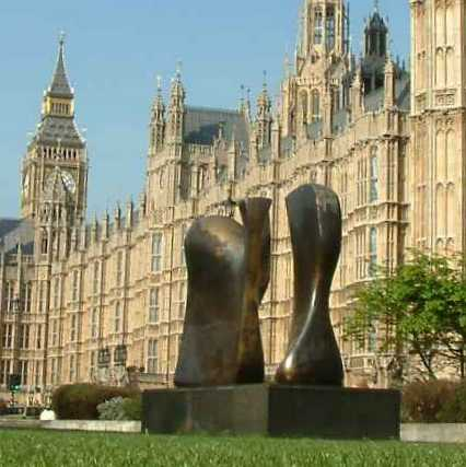 Knife Edge - Two Piece by Henry Moore, 1962 - Westminster - London - England.